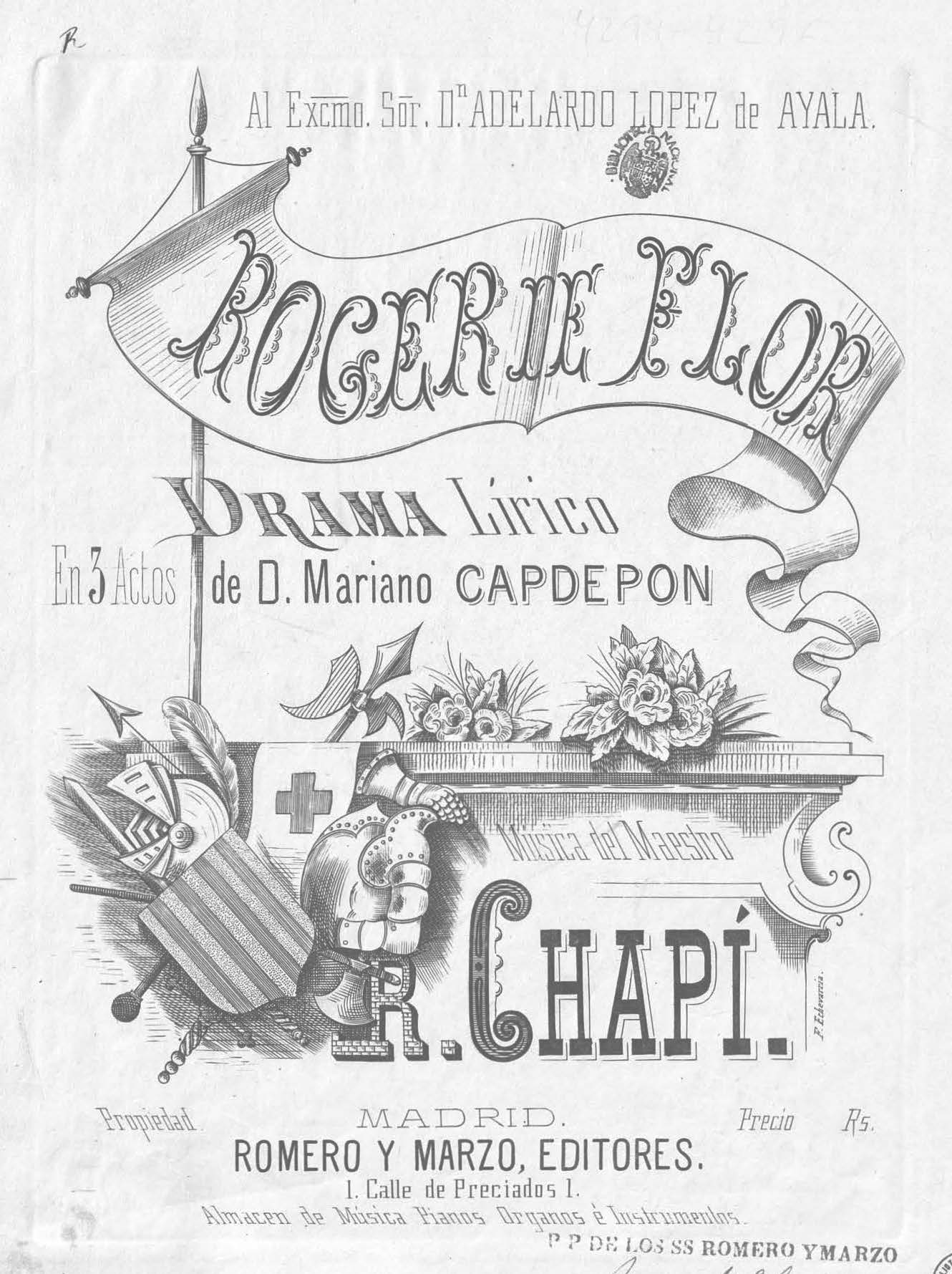 Cover of the first edition of vocal score of Roger de Flor by Ruperto Chapí. Printed by Romero y Marzo ca. 1879.